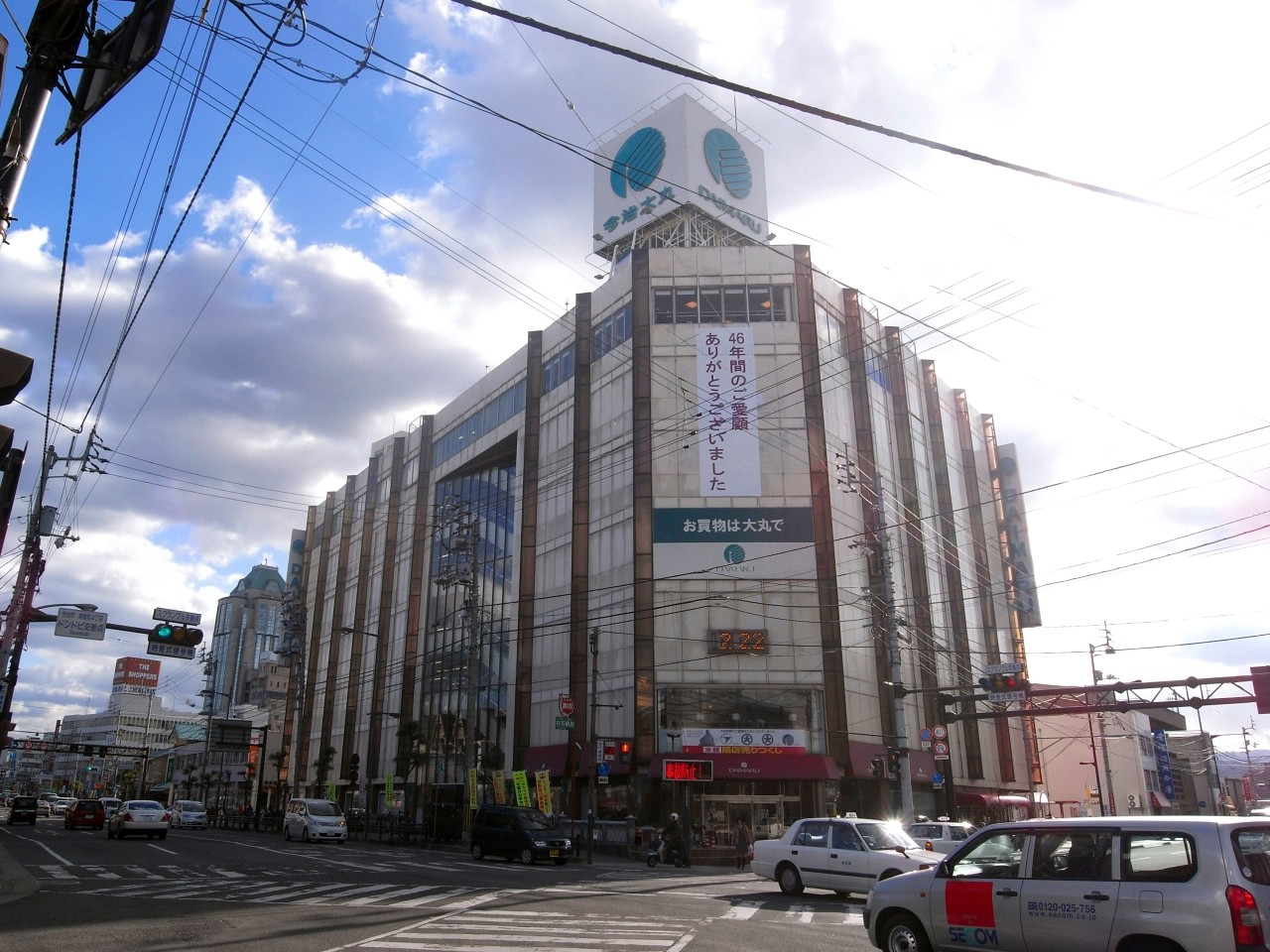 Imabari Daimaru in Imabari, Ehime pref., Japan.